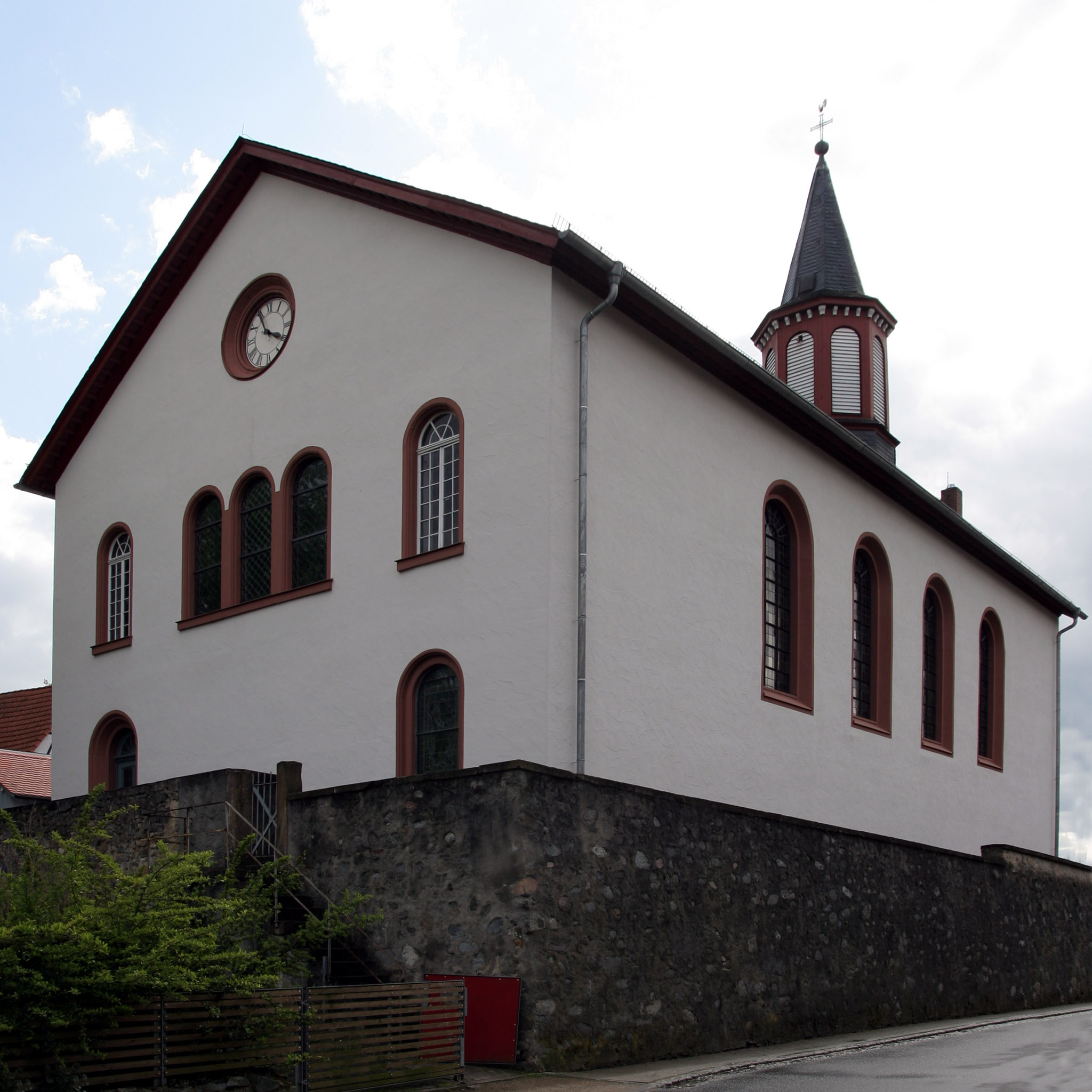 The Saint Anna Church in Bensheim-Gronau (Hesse, Germany)